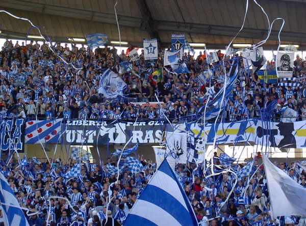 Any use of the image is allowed, as long as attribution is given to Supporterklubben Ã„nglarna, the supporter club of IFK GÃ¶teborg, and a link to the original image is given.